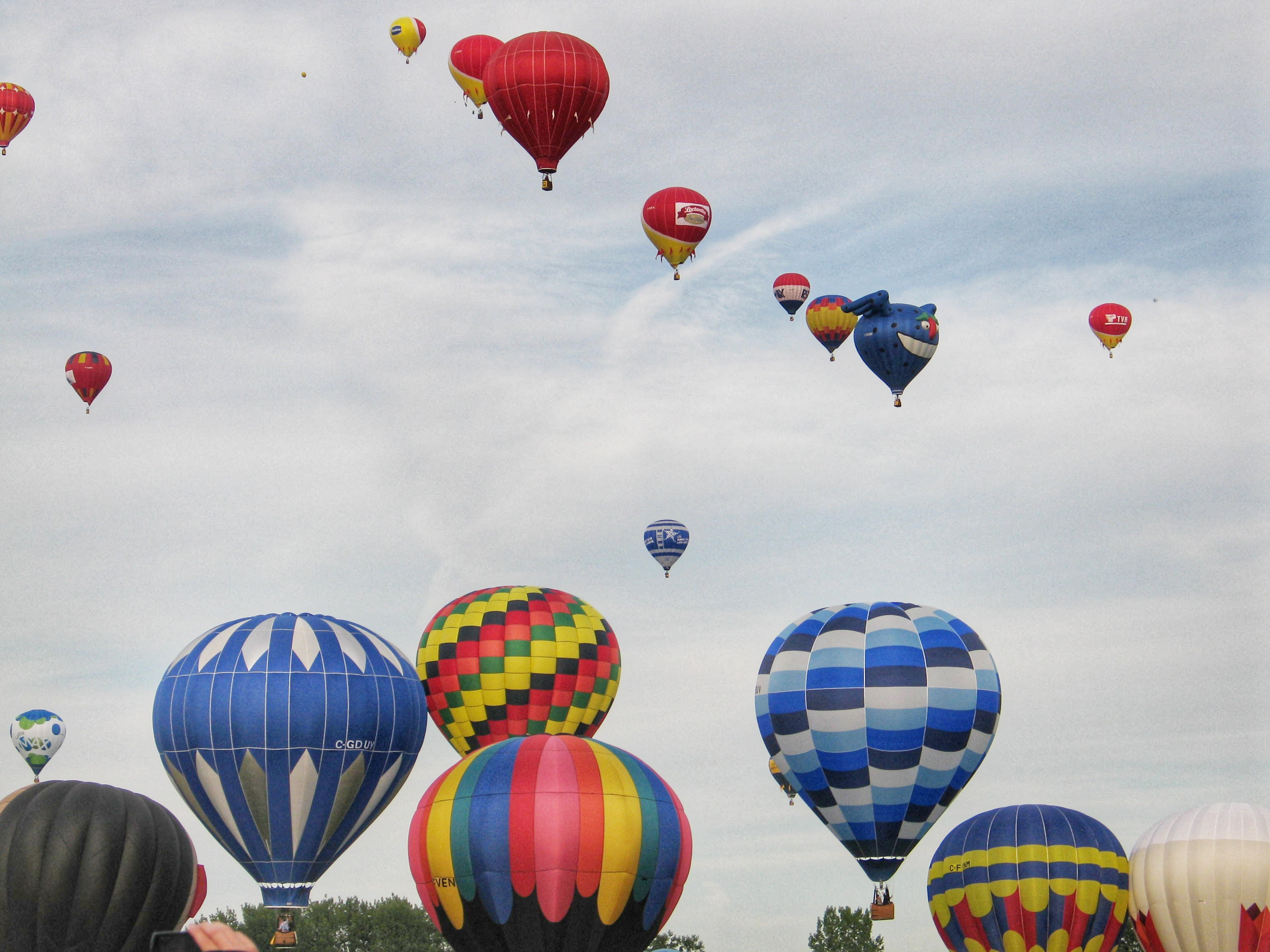 Evening ascent at the International Balloon Festival of Saint-Jean-sur-Richelieu, Quebec.